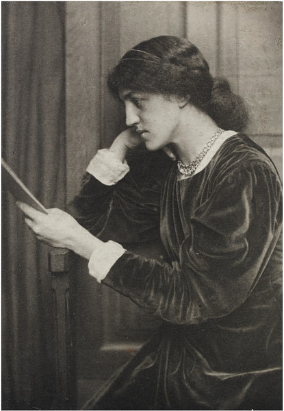 Portrait of Miss May Morris, Portraits of many persons of note photographed by Frederick Hollyer, Vol. 3, platinum print, late 19th century Victoria and Albert Museum, London, museum no. 7821-1938 (Link)